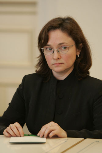 Elvira Nabiullina, a Russian economist and Governor of the Bank of Russia